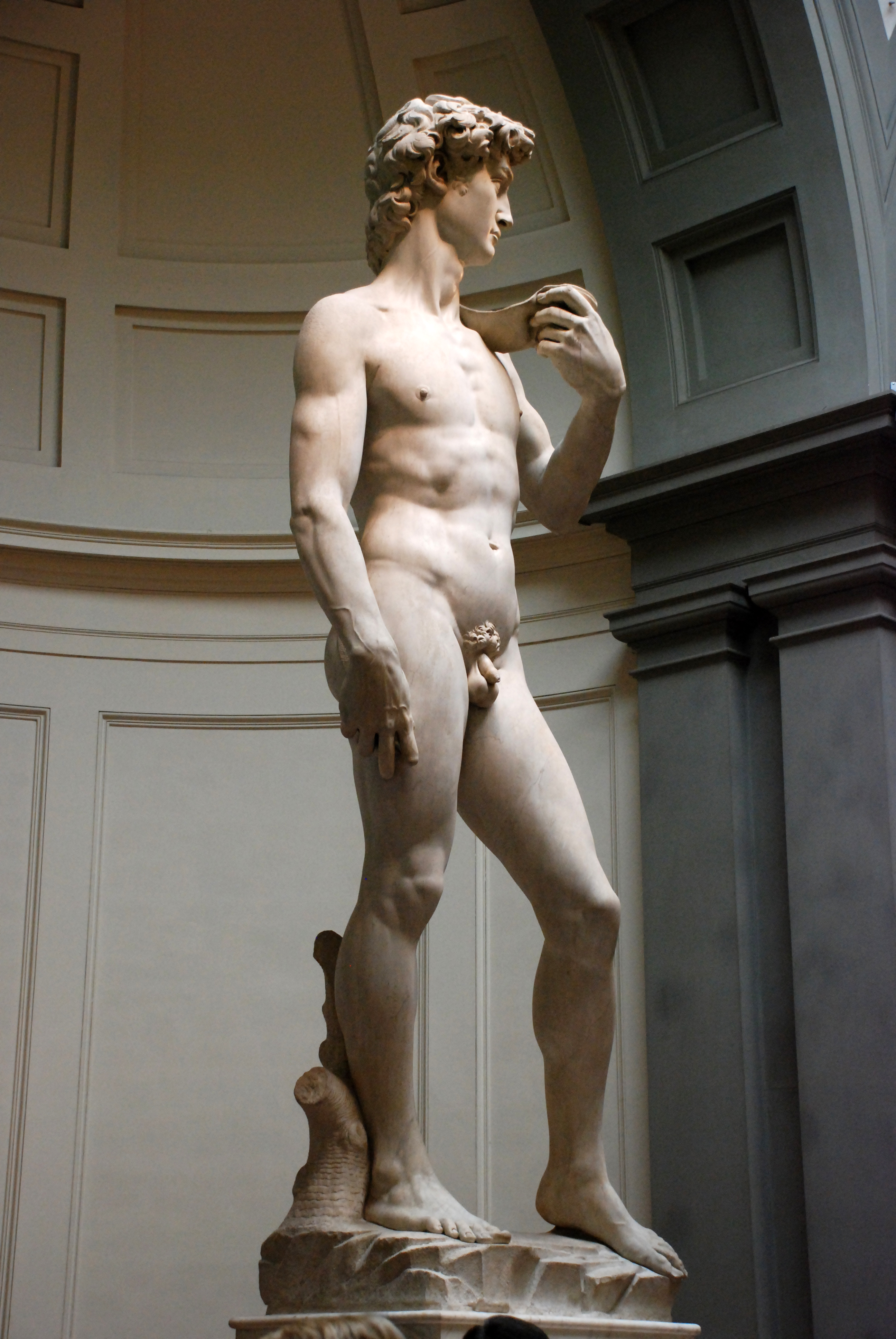 Michelangelo's David